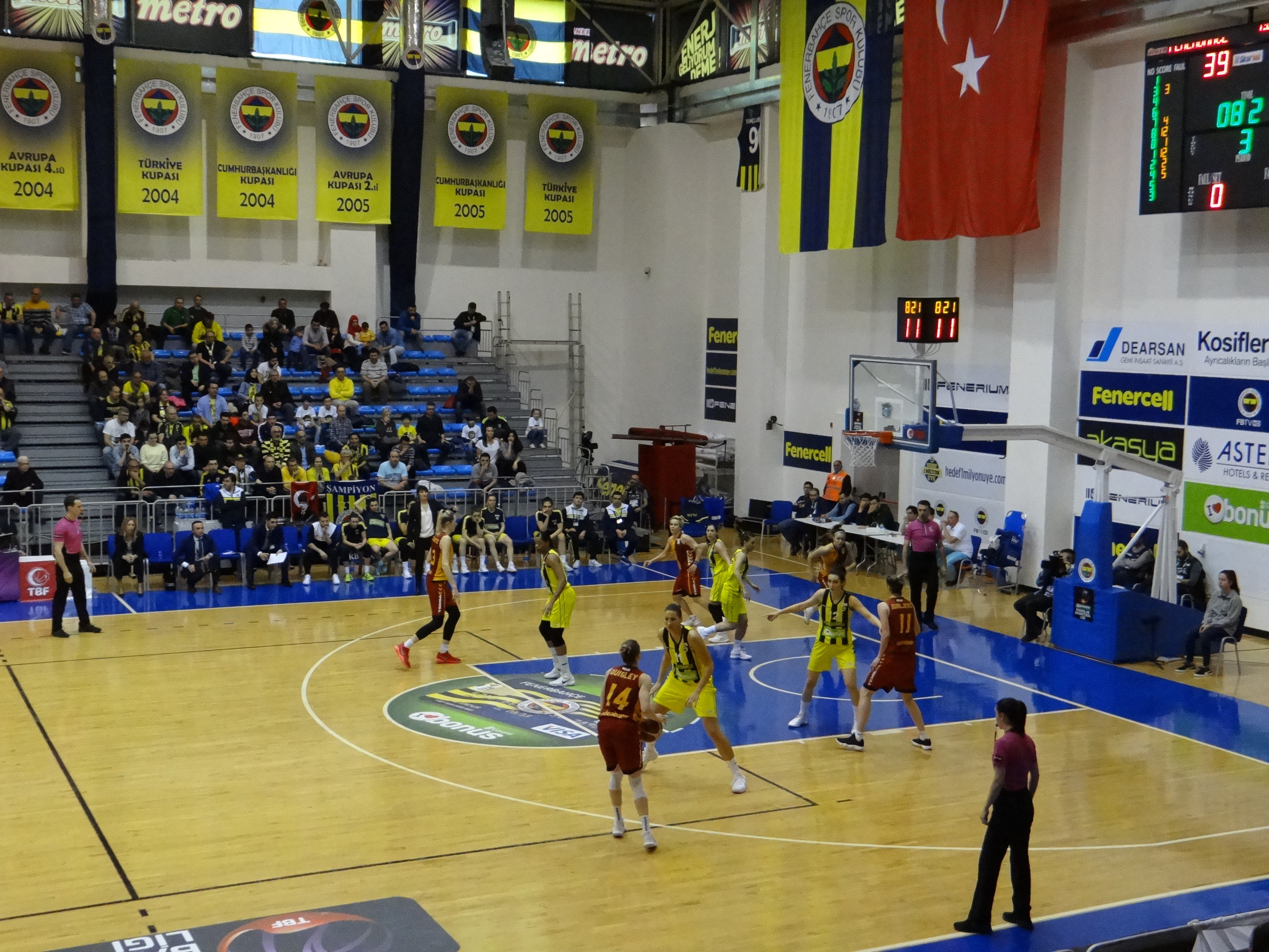 Fenerbahçe Women's Basketball vs Galatasaray Women's Basketball TWBL 20180408